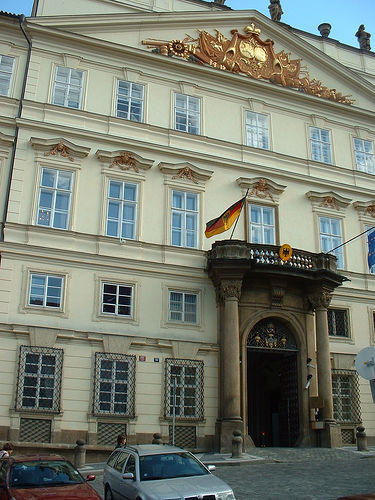 Embassy of Germany in Prague.